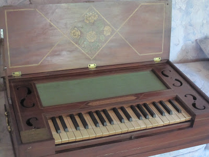 Photograph of Beyer Glasschord, built 1786 Other information Beyer uses hammers against glass strips to create the sound